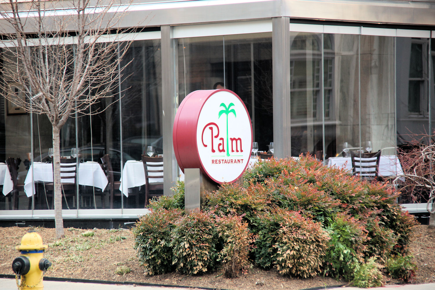 1225 19th Street NW in Washington, D.C., in the United States. This image is looking northeast. The structure is known as the Jefferson Building, designed by Vlastimil Koubek and erected in 1963. It became home to the upscale The Palm steak restaurant in December 1972. At some point between 1972 and 2005, the building's exterior reflecting pool and fountains were replaced by single-story, aluminum-and-glass extension of the restraurant onto the plaza area. A garden and small trees were also added around this extension. At some point, The Palm expanded